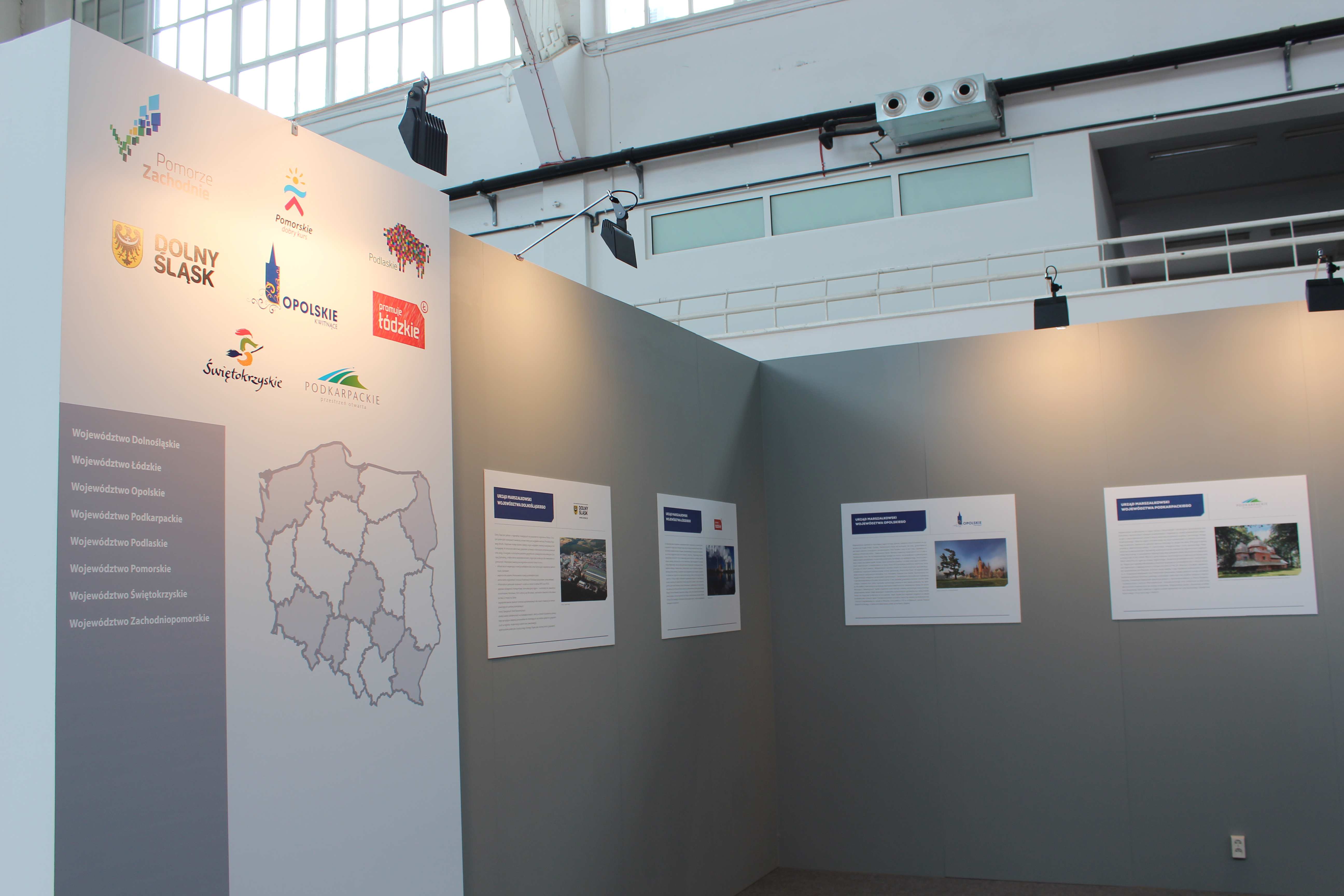 2nd General National Exhibition "Competitive Poland 1989-2014" - voivodeships presentation